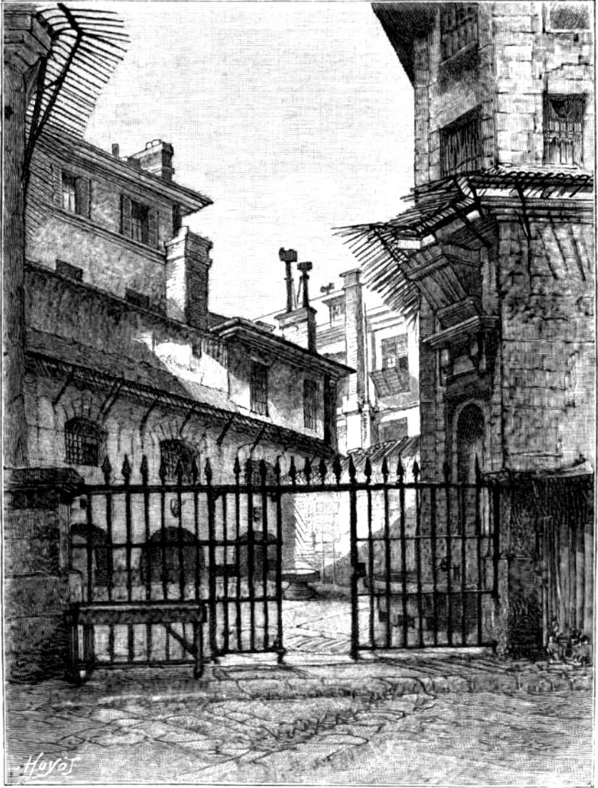 The Women's Court of the Conciergerie Prison in Paris, France.